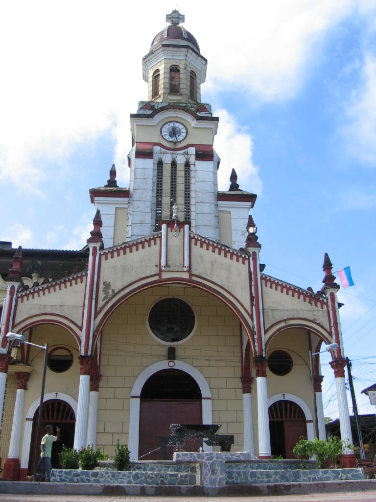 The Church of Saint Joseph in Condoto, Chocó, Colombia.